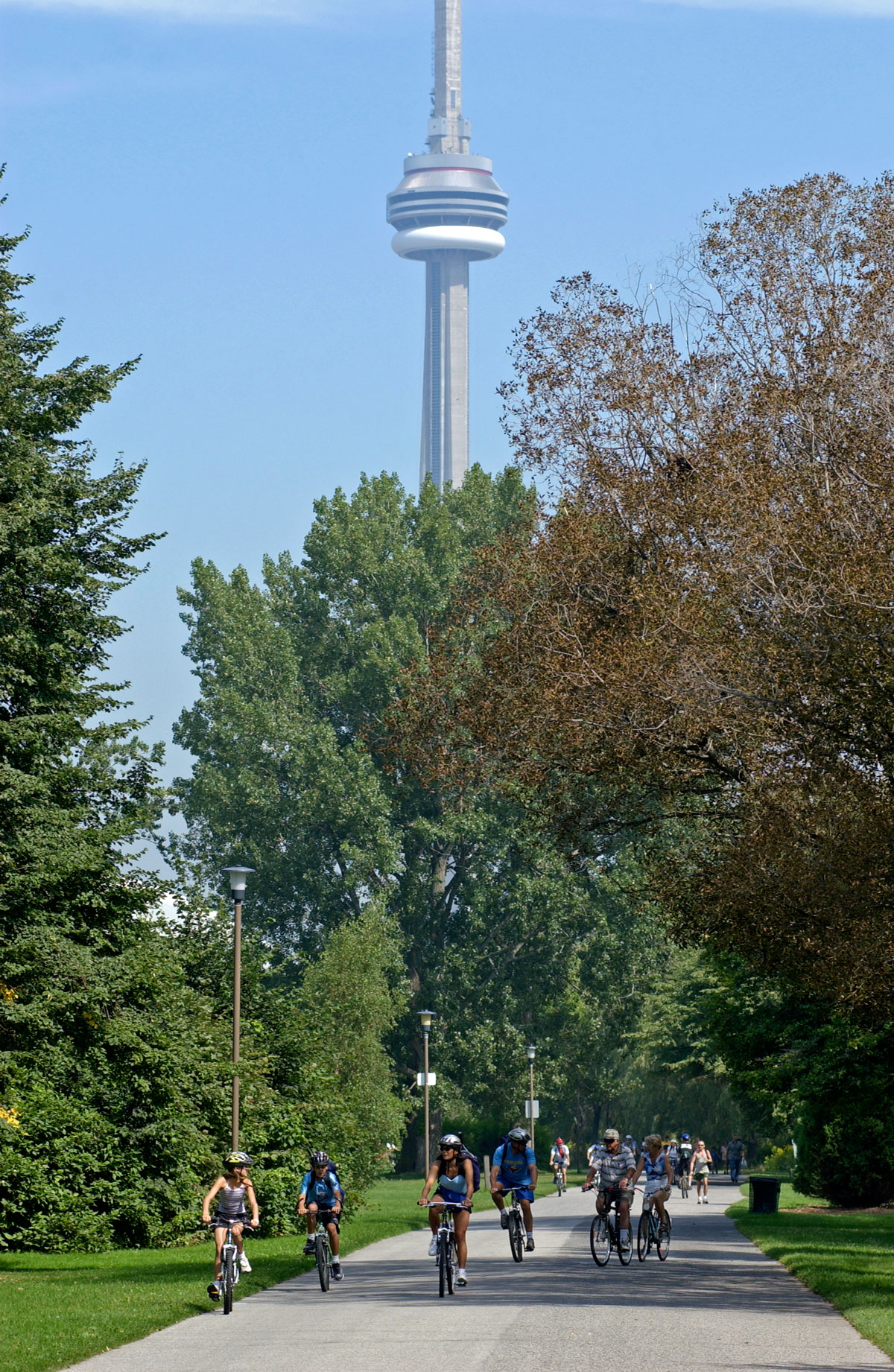 Cyclists on Centre Island, with the CN Tower visible in the background, Toronto, Ontario, Canada.